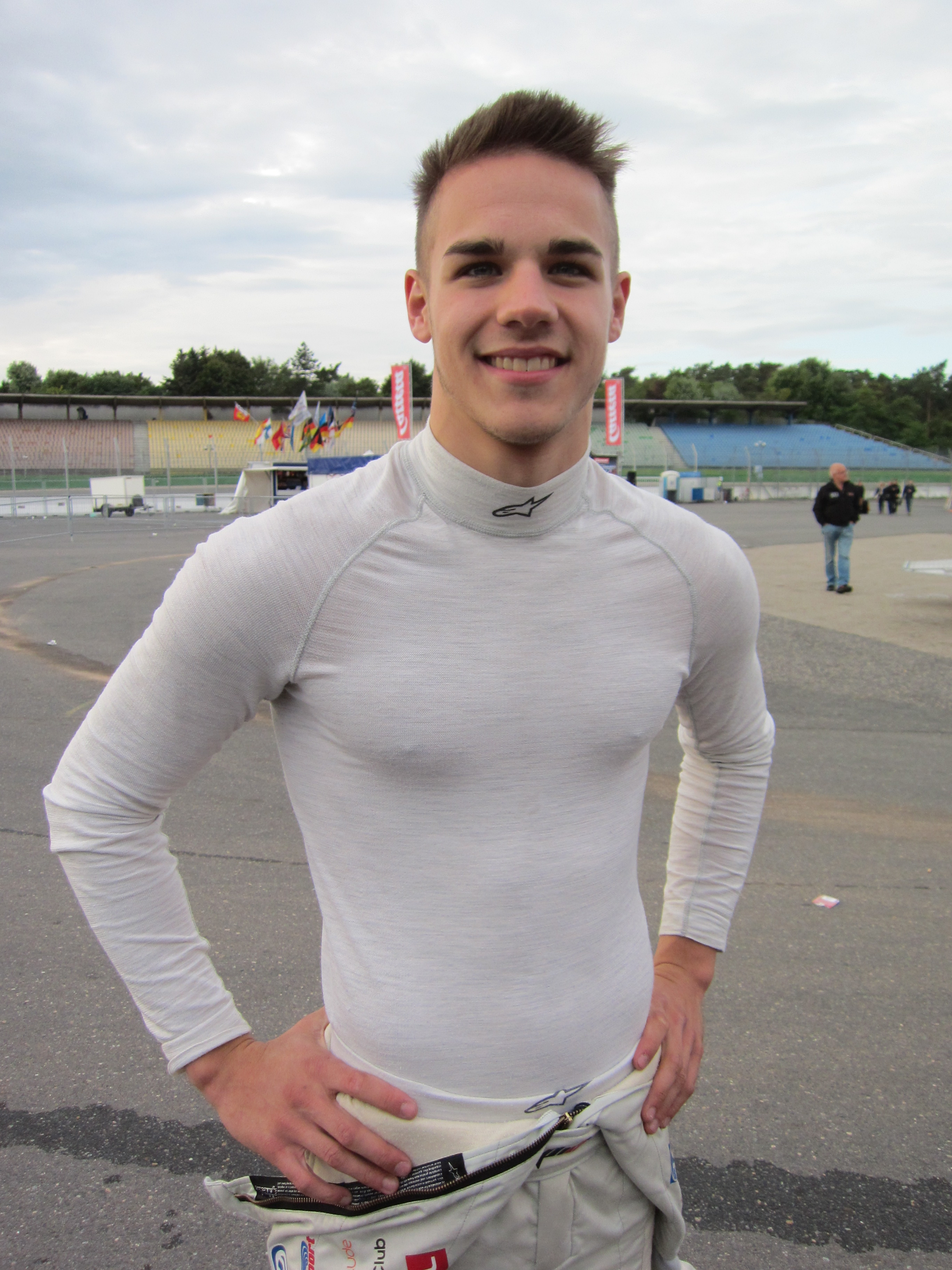 Alessio Picariello: the photo was taken during 2013's ADAC GT Masters race weekend at Hockenheim